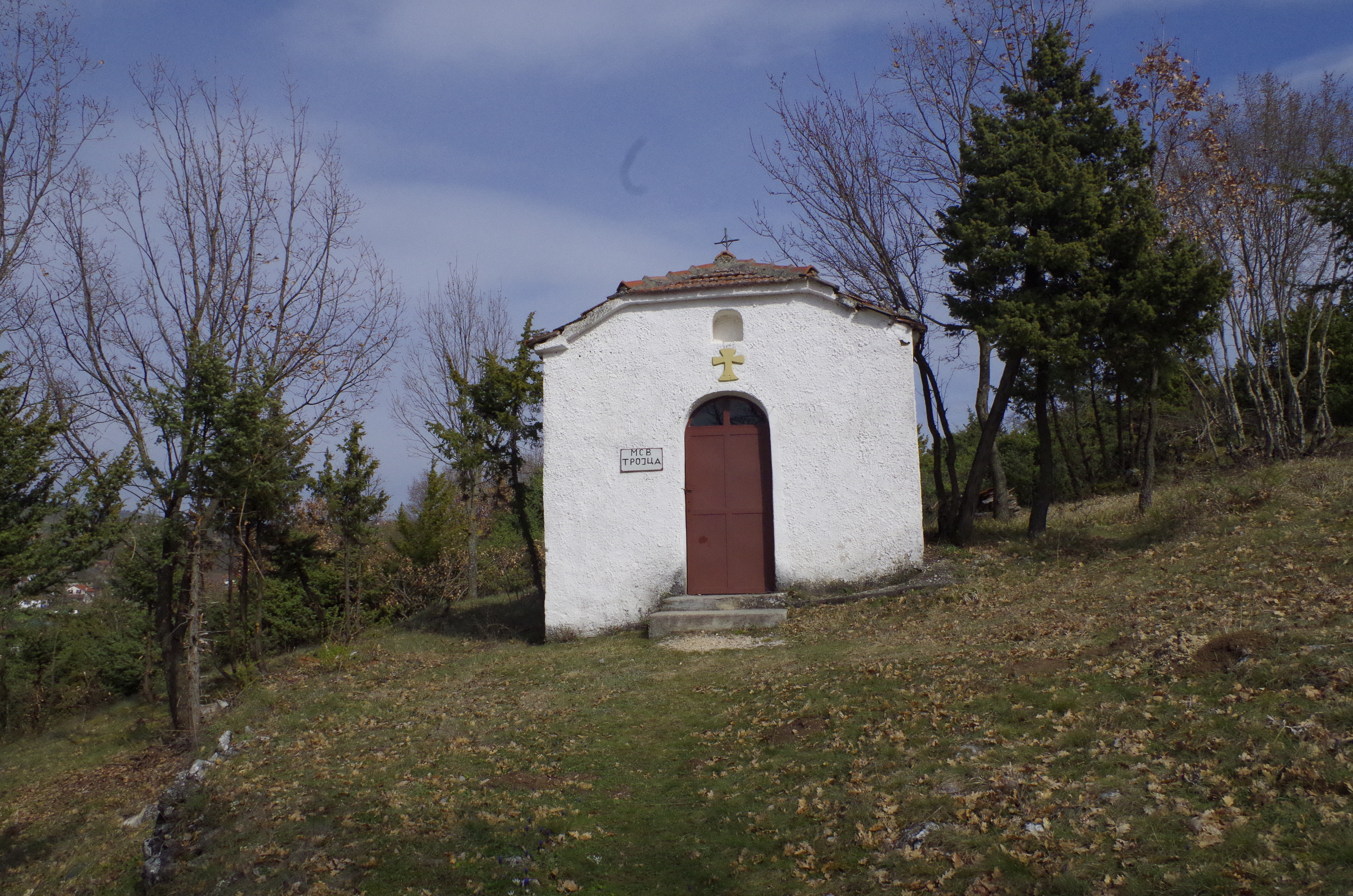 Holy Trinity Church in the Monastery of Govrlevo